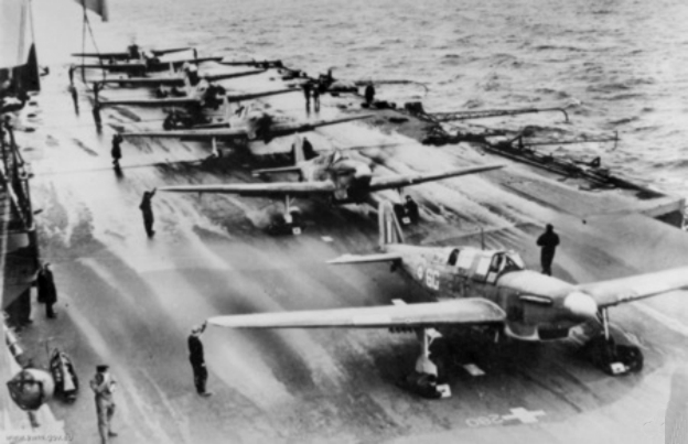 Royal Navy Fairey Fulmar Mk.II fighters of 809 Naval Air Squadron on deck of the aircraft carrier HMS Victorious (R38) in April 1942.